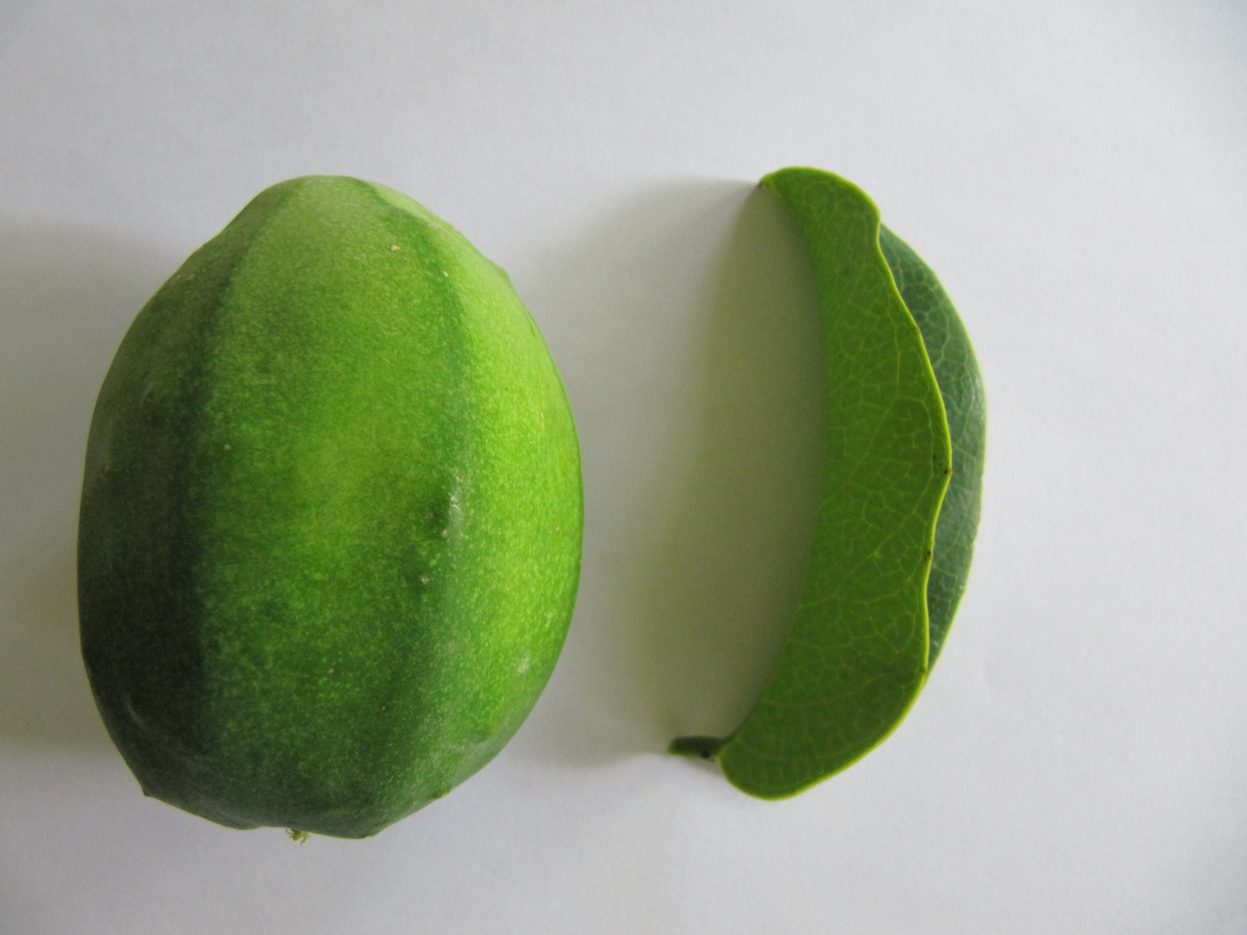 Green fruit and leaf of Passiflora Laurifolia from Guadeloupe